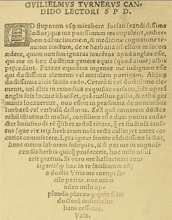 Page from "Libellus de Re Herbaria Novus" by William Turner, 1538, with name Giulielmus Turnerus Candido Lectori S P D